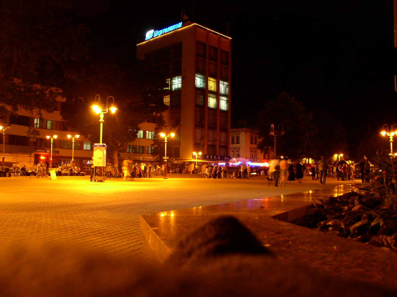 Ivano-Frankivsk, Ukraine at night.